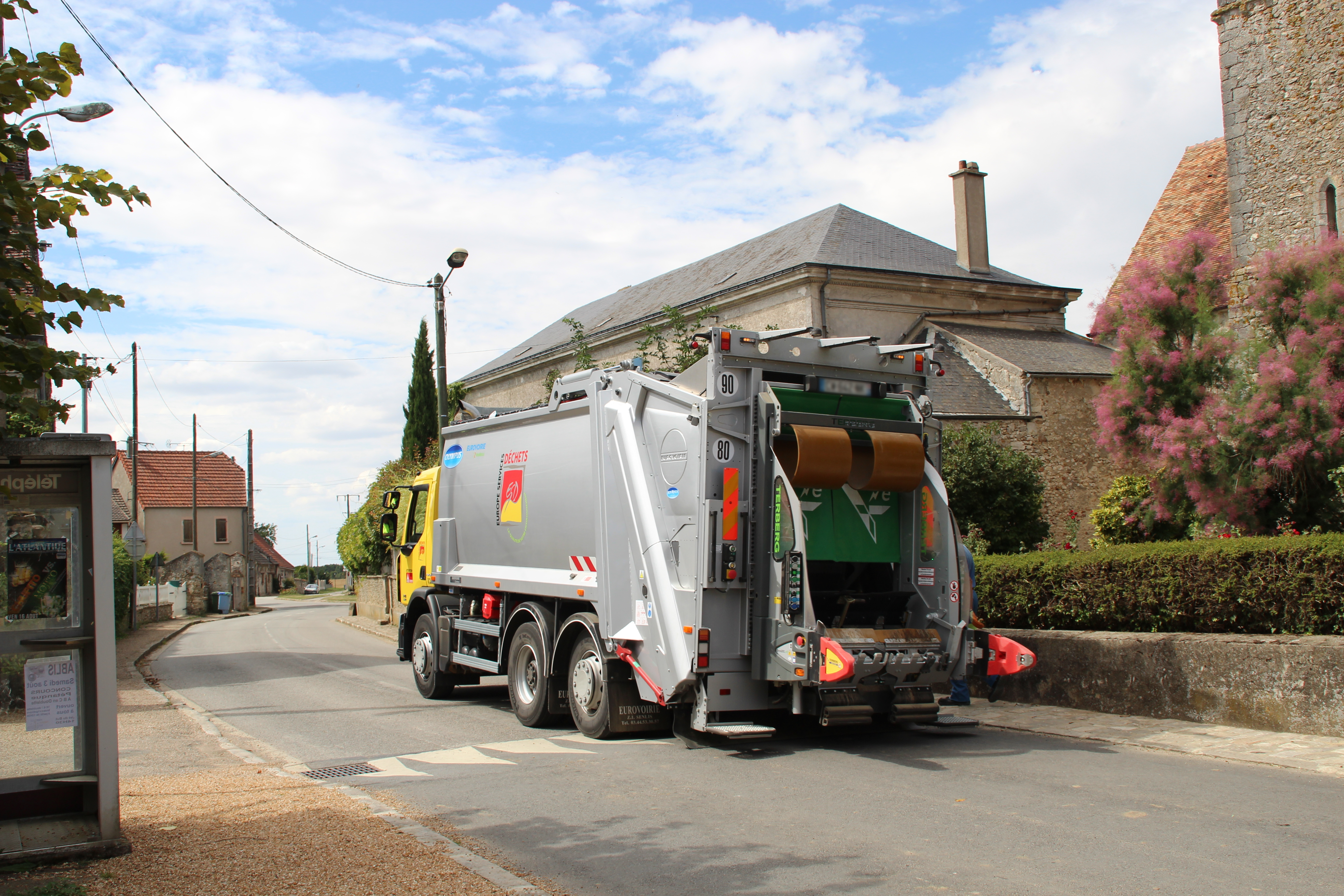 Waste collection truck in Boinville-le-Gaillard, France